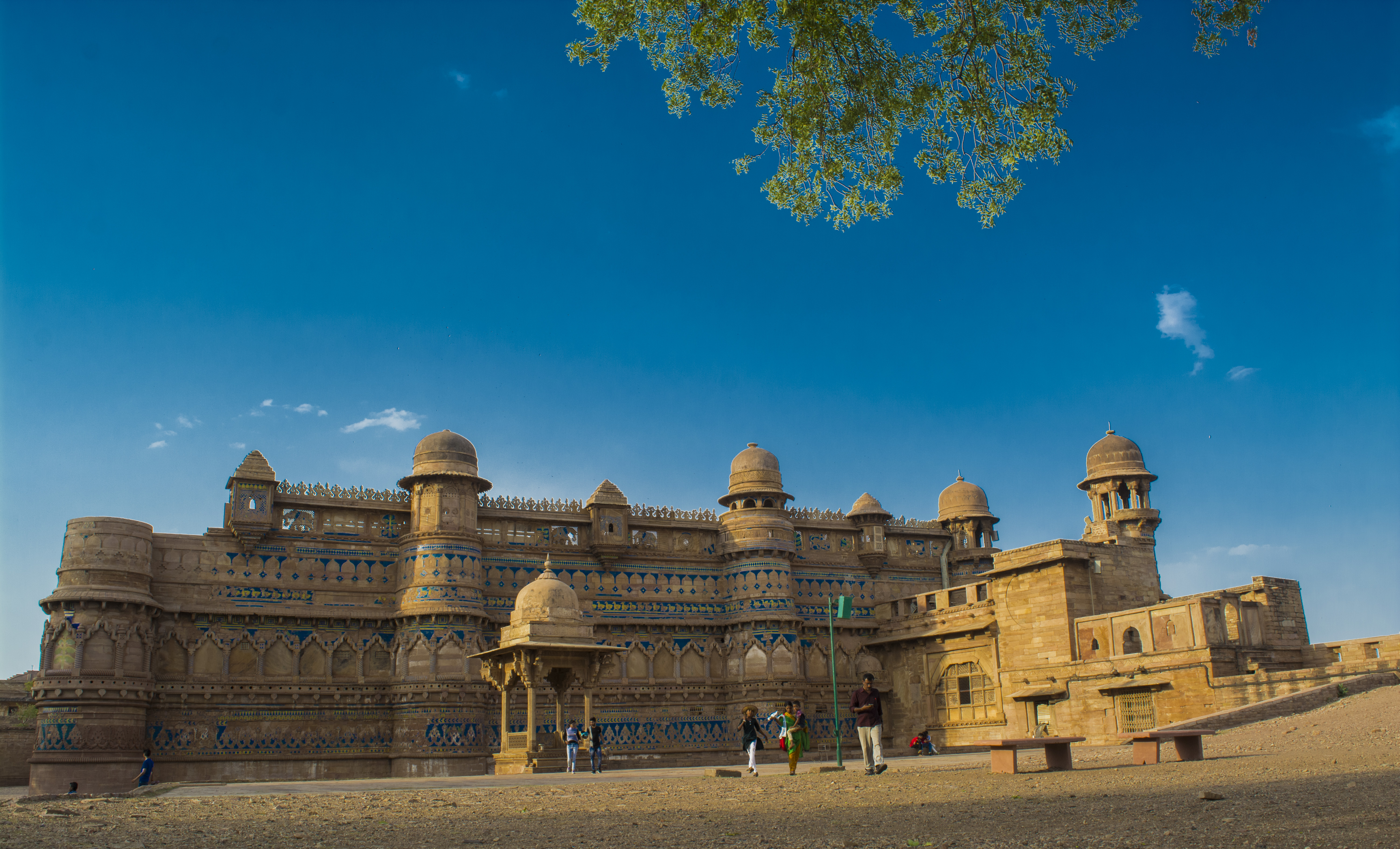 Gwalior Fort, Madhya Pradesh, India.